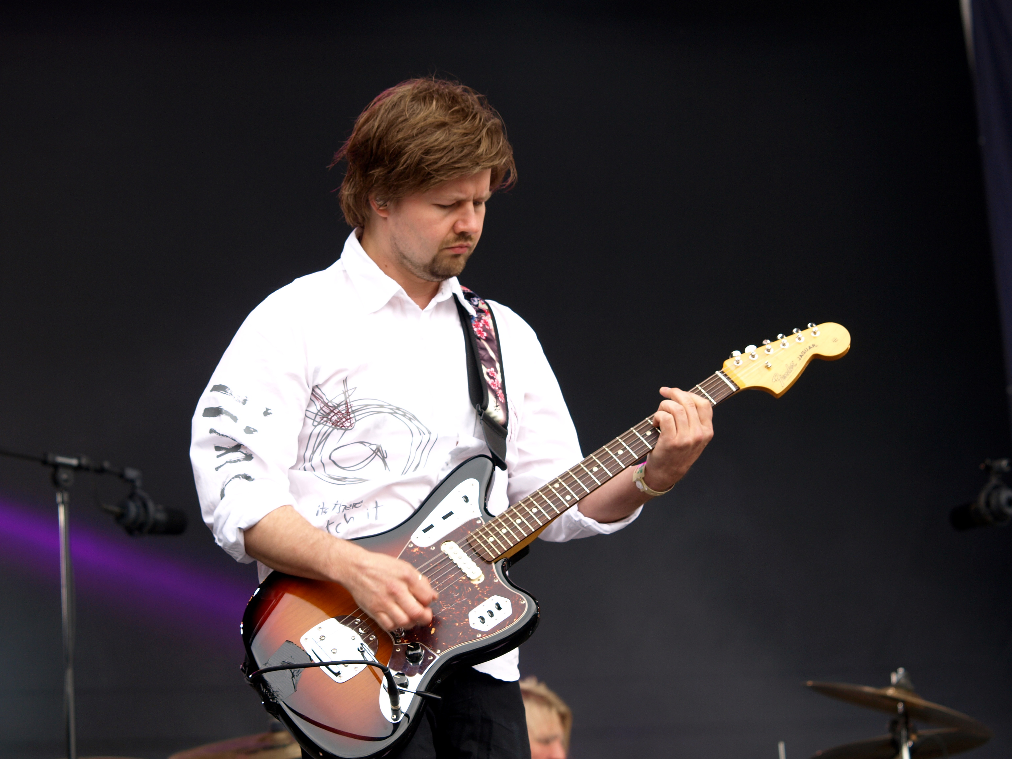 Finnish rapper Cheek and his band live at Provinssirock 2013